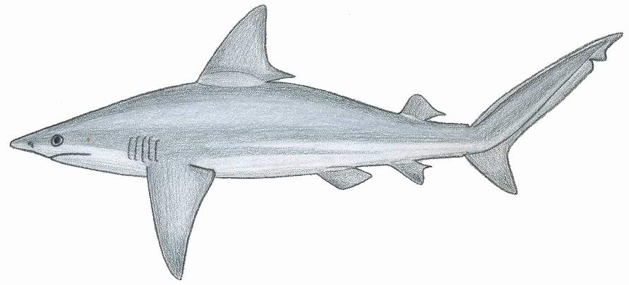 Carcharhinus plumbeus